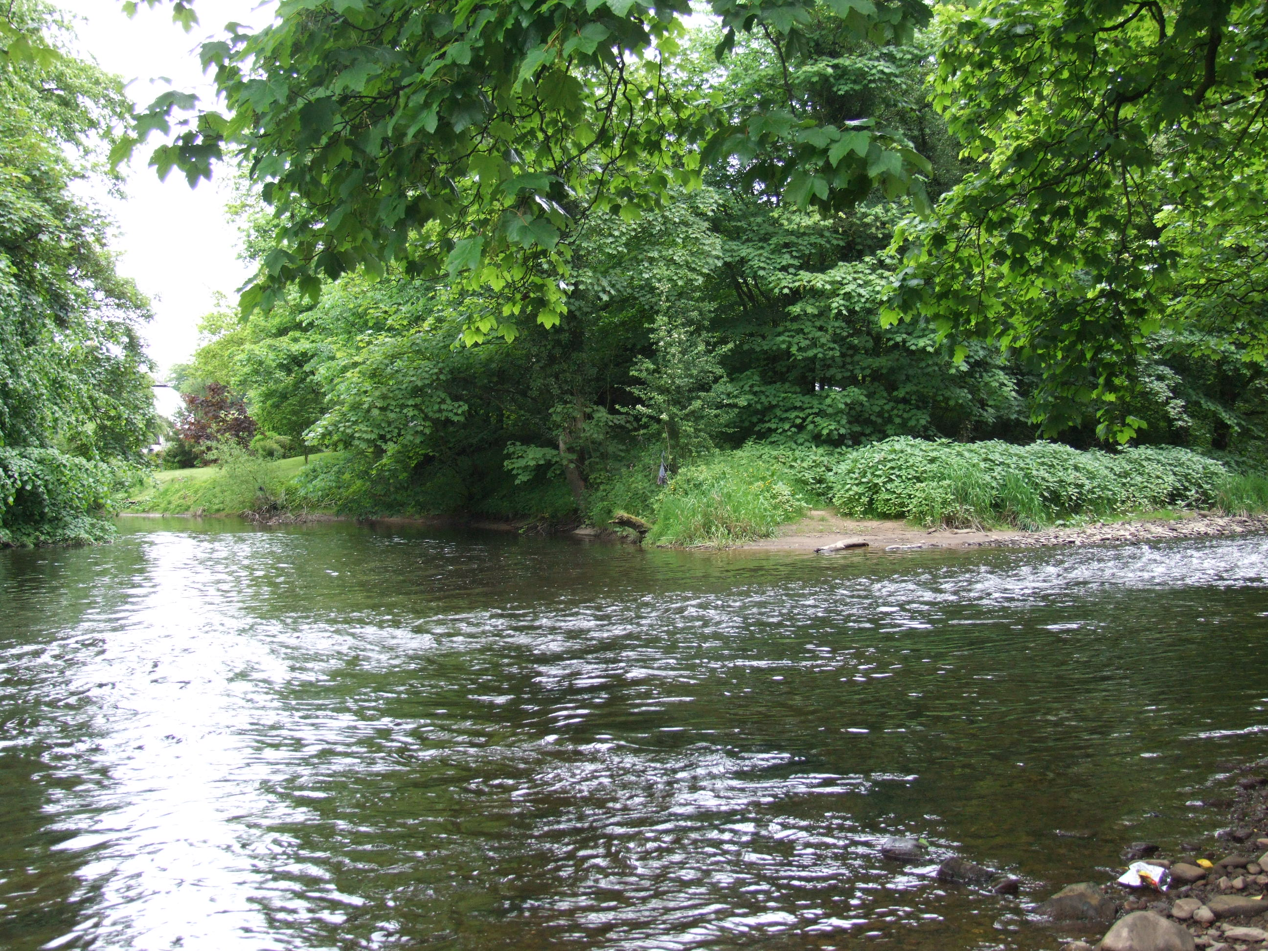 The River Goyt in Brabyns Park, Marple, Greater Manchester. The River Etherow joins from the left.